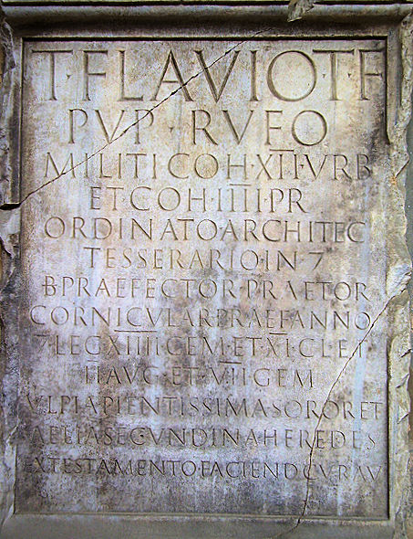 Tombstone from Ravenna of Roman soldier Titus Flavius Rufus. CIL XI 20: T(ito) Flavio T(iti) f(ilio) / Pup(inia) Rufo / militi coh(ortis) XII urb(anae) / et coh(ortis) IIII pr(aetoriae) / ordinato architec(to) / tesserario in ) (centuria) / b(eneficiario) praefector(um) praetor(io) / cornicular(io) praef(ecti) anno(nae) / ) (centurioni) leg(ionis) XIIII Gem(inae) et XI Cl(audiae) et / II Aug(ustae) et VII Gem(inae) / Ulpia pientissima soror et / Aelia Secundina heredes / ex testamento